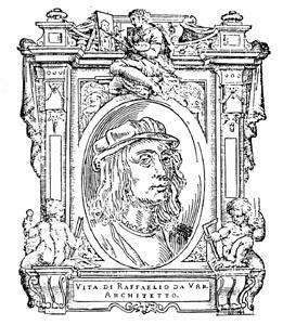 Illustratio from "Le Vite" by Giorgio Vasari, edition of 1568. For the artist portrayed see filename